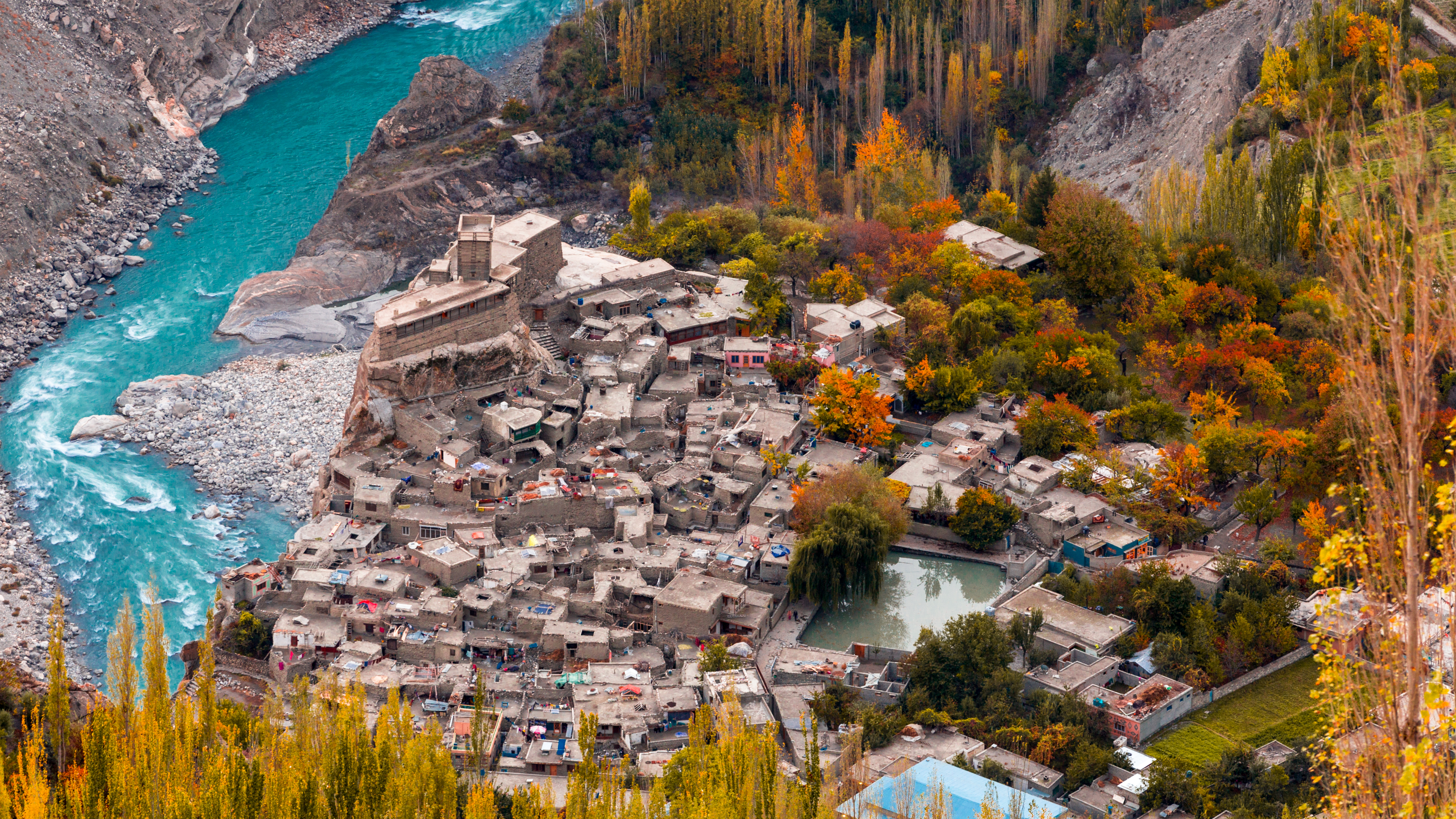 Altit fort in Autumn